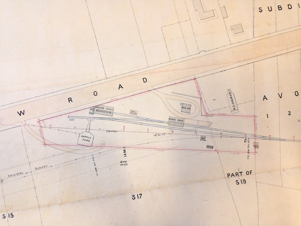 Context of the stopping place at Newcastle in 1892